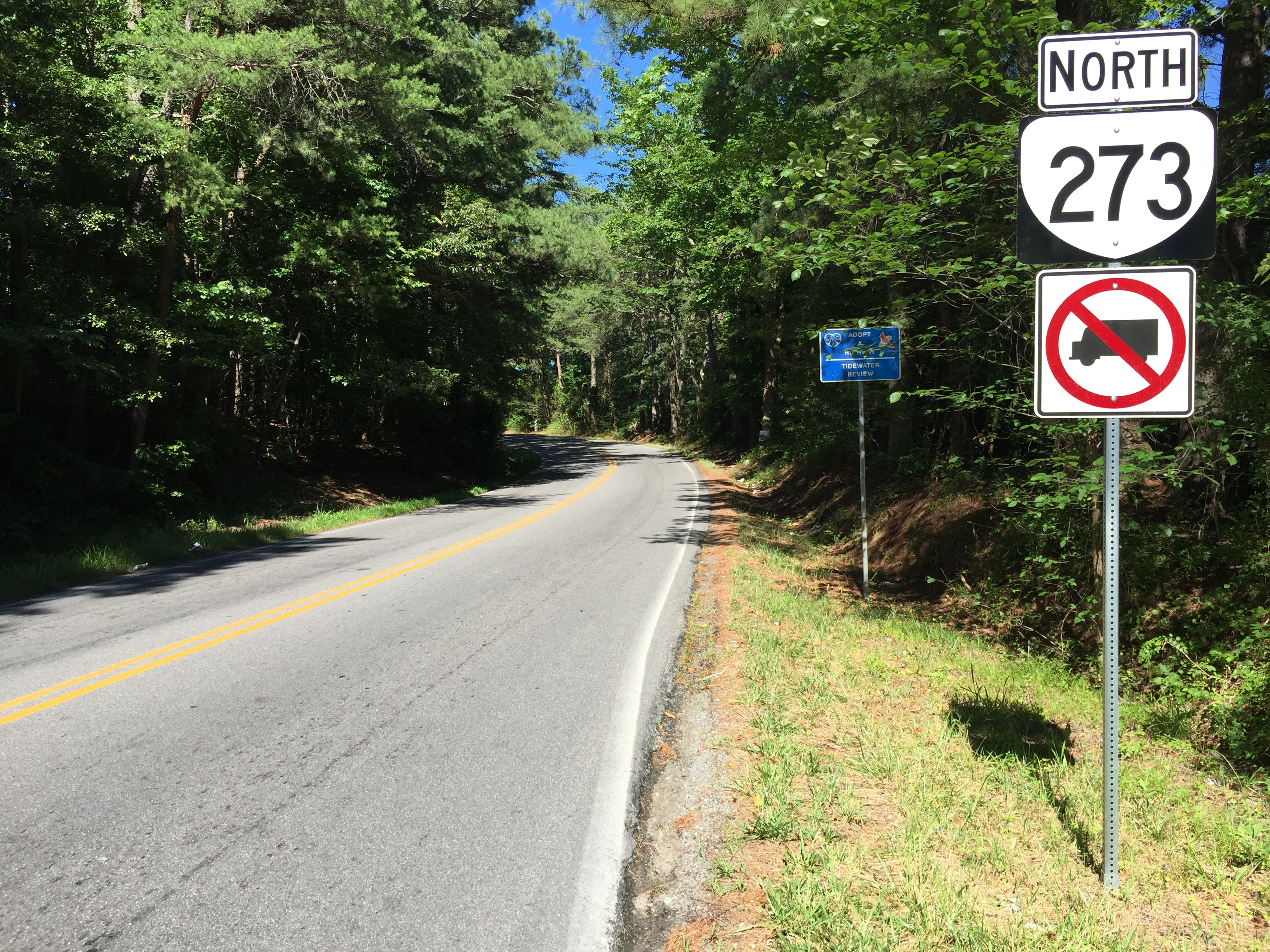 View north along Virginia State Route 273 (Farmers Drive) at Virginia State Route 30 (New Kent Highway) in Barhamsville, New Kent County, Virginia